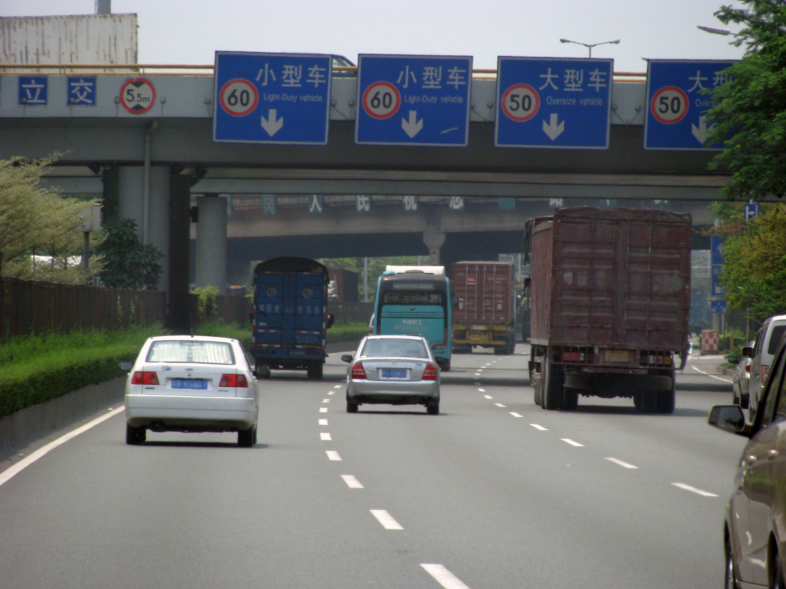 The China National Highway 107 in Baoan, Shenzhen.